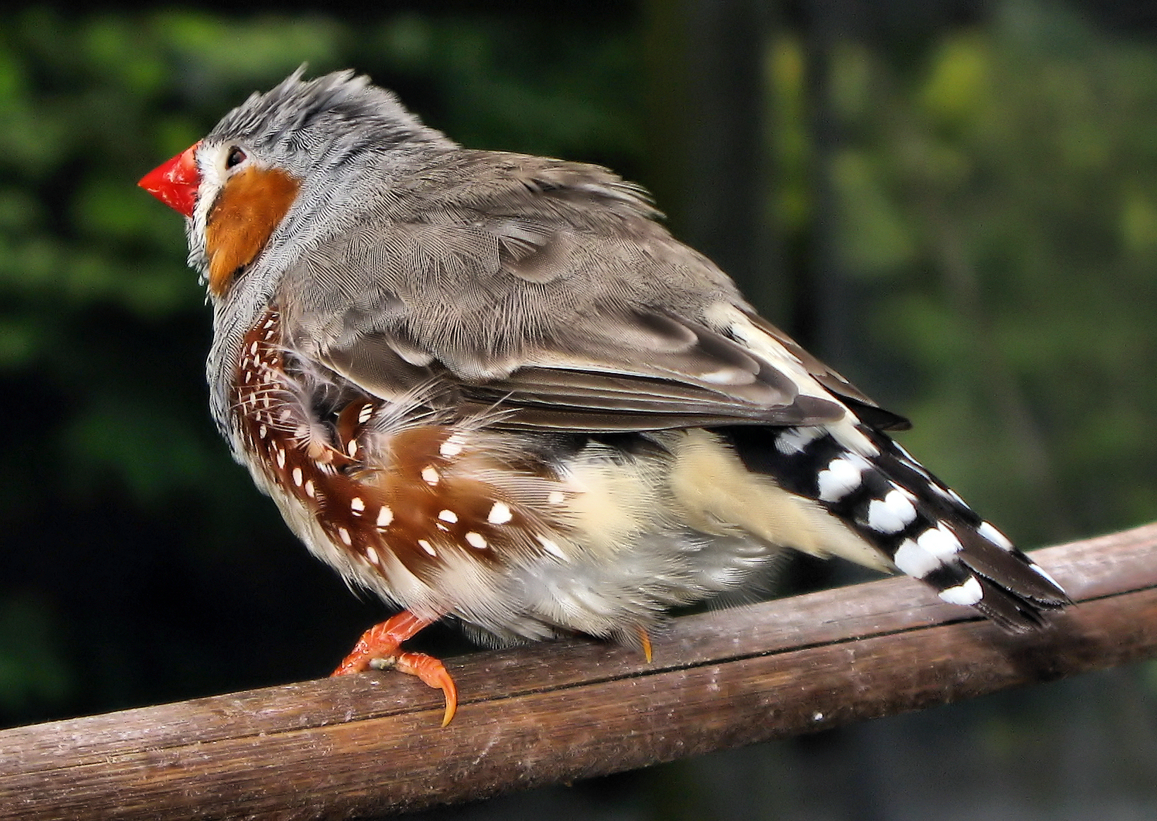 Captive Zebra Finch Taeniopygia guttata at Bodelwyddan Castle Aviary, Denbighshire, Wales.